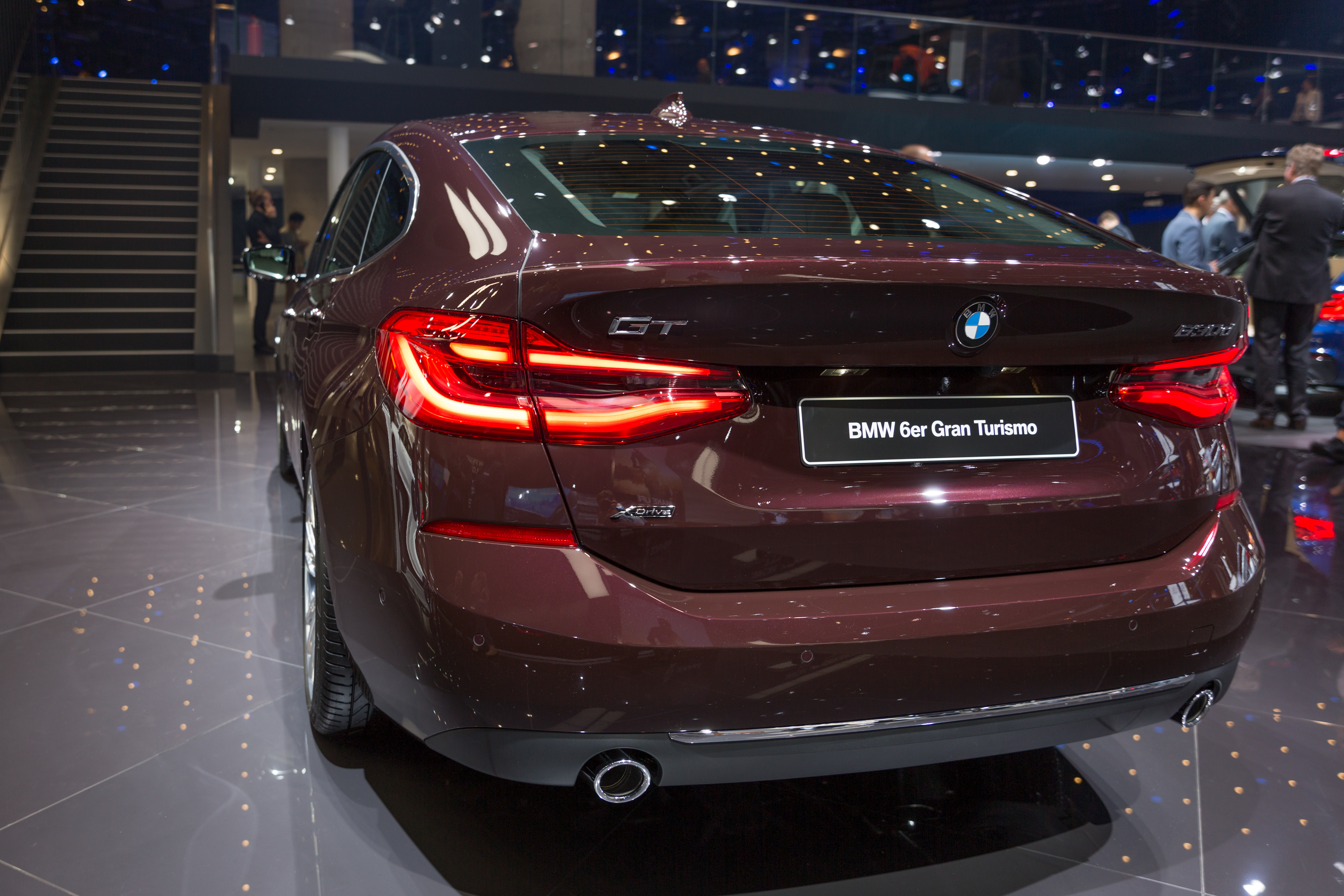 BMW 630d GT xDrive, IAA 2017